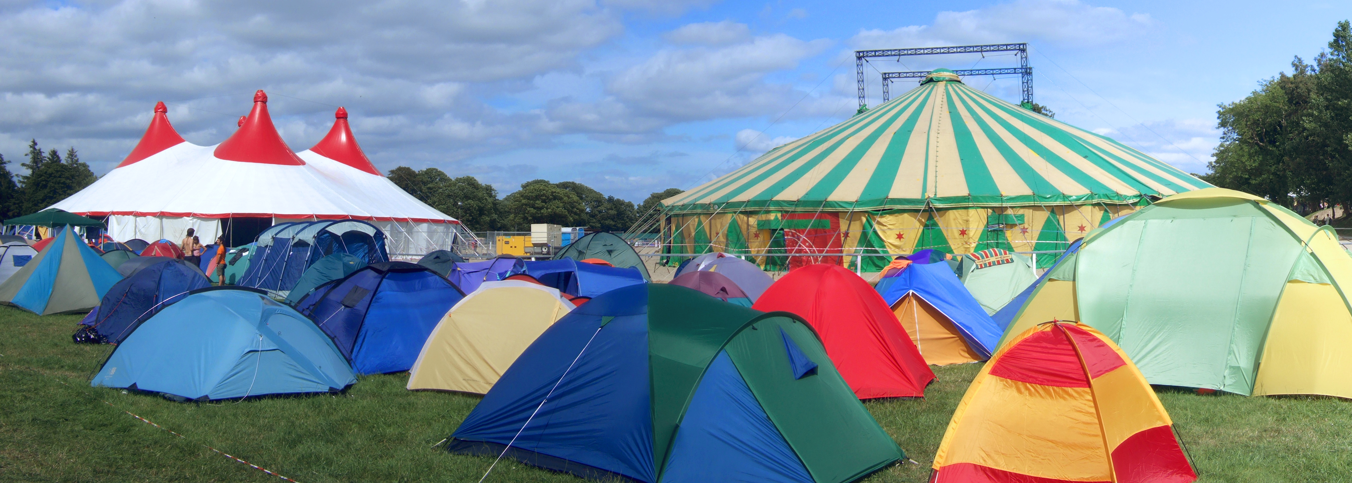 Panoramic image of big tops and tents at European Juggling Convention 2006 (Millstreet, Ireland)